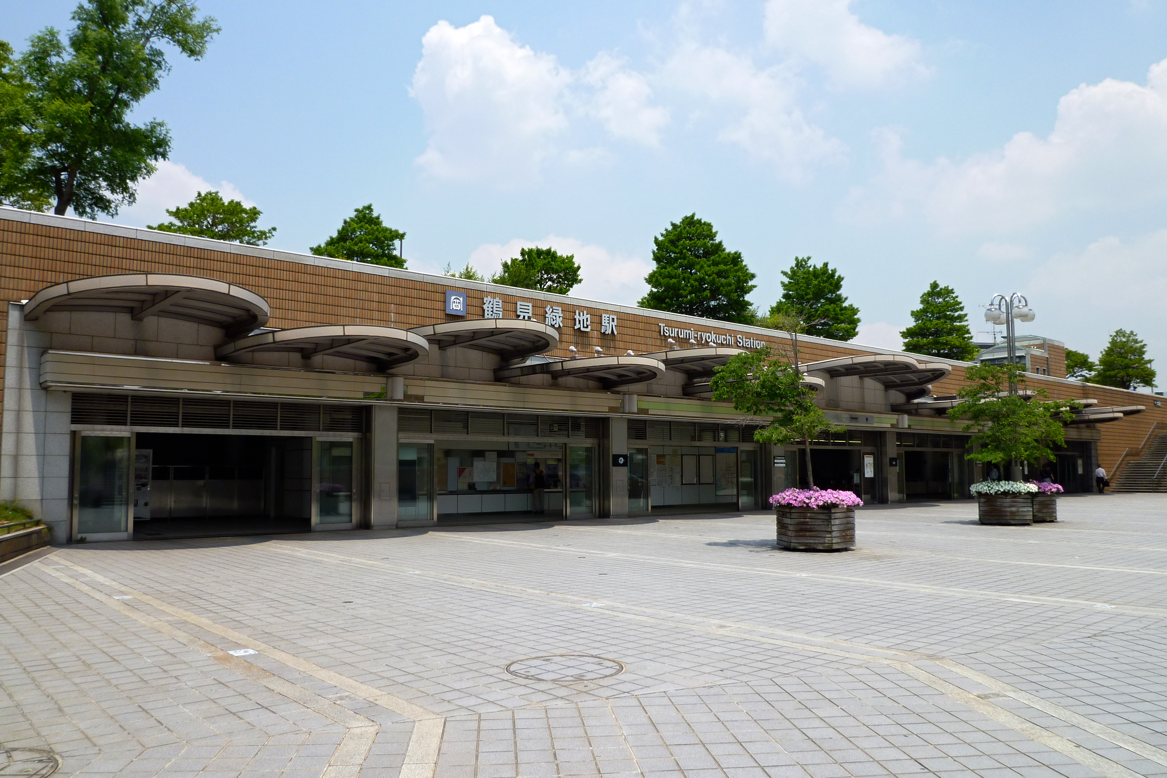 Hanahakukinenkoen Turumiryokuchi, Osaka, Osaka prefecture, Japan.